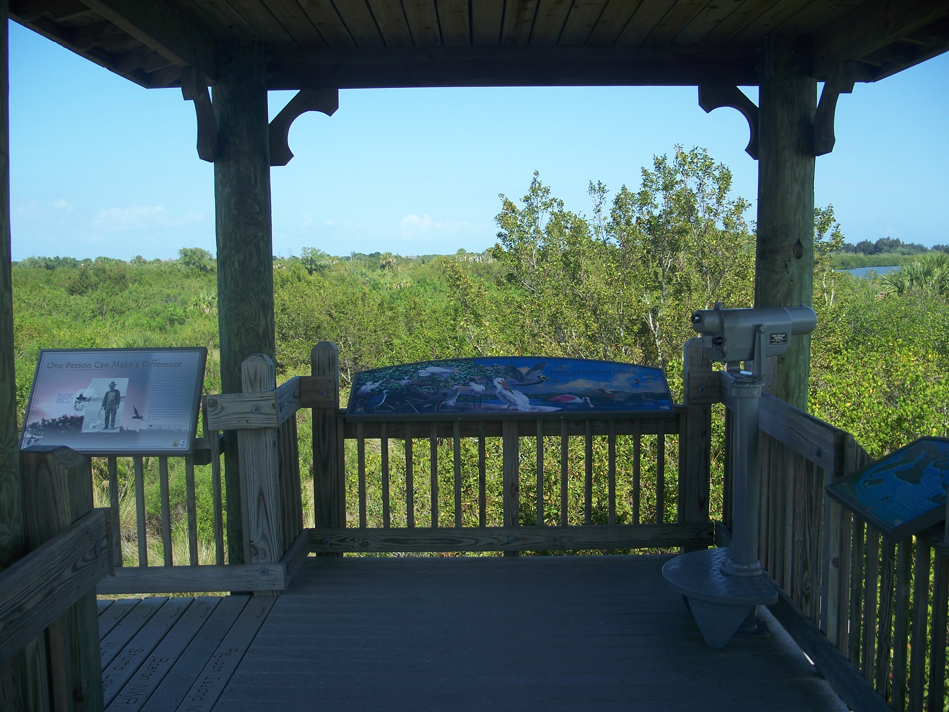 Orchid, Florida: Pelican Island National Wildlife Refuge: Centennial Trail: Observation area, at end of the boardwalk